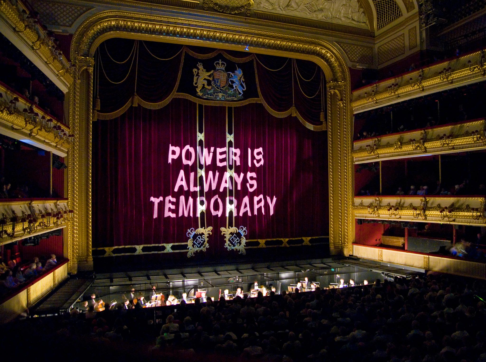 Text projections by public artist Martin Firrell onto the Front Cloth of the Royal Opera House, Covent Garden. Commissioned by the Royal Opera House for the Hamlyn Foundation Performance of Tosca. Titled 'Six Women' the artwork reflected the views and life experiences of six women aged 60 to 83.